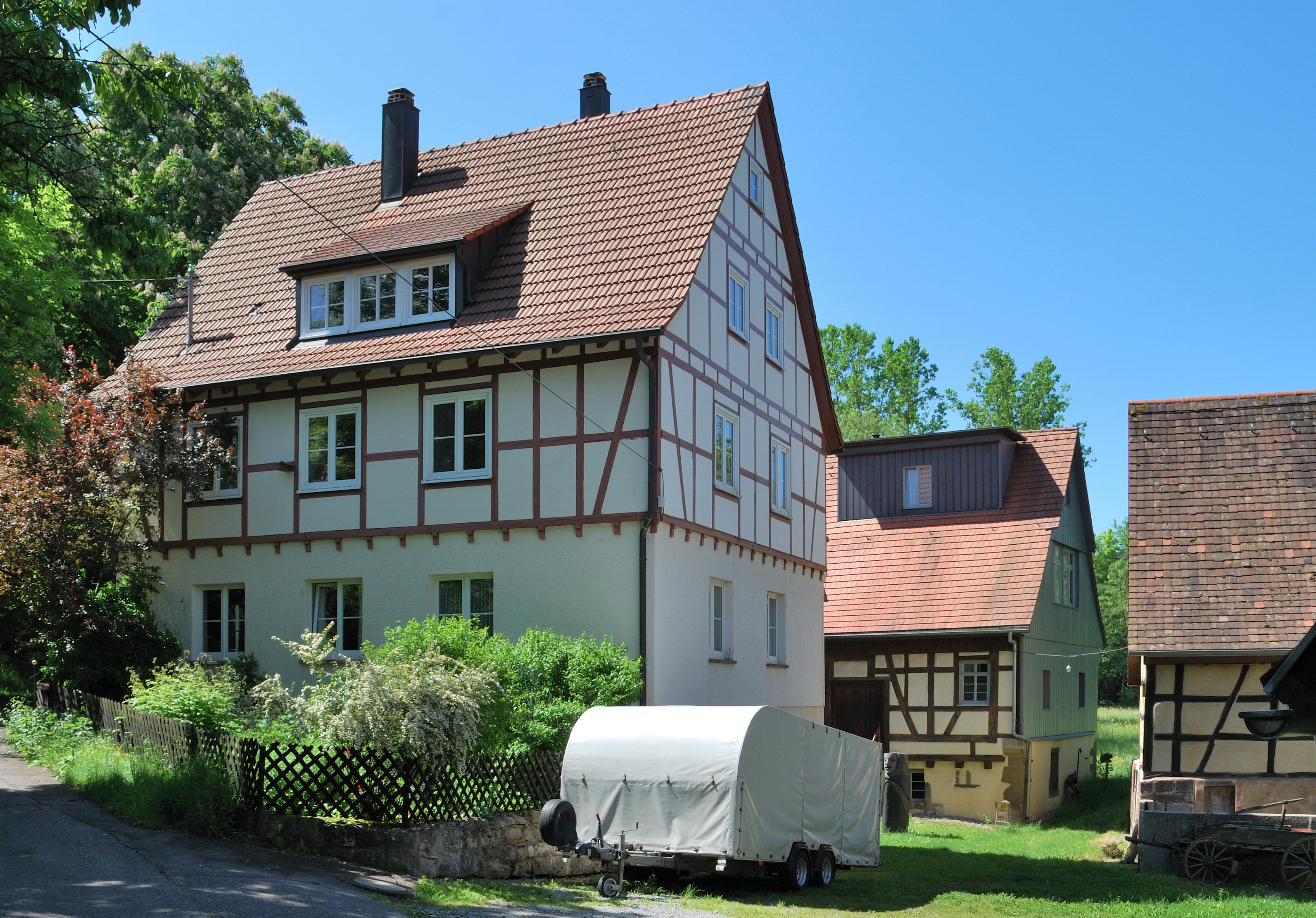 Lahrensmühle, a former flour mill on the river Glems in Leonberg.